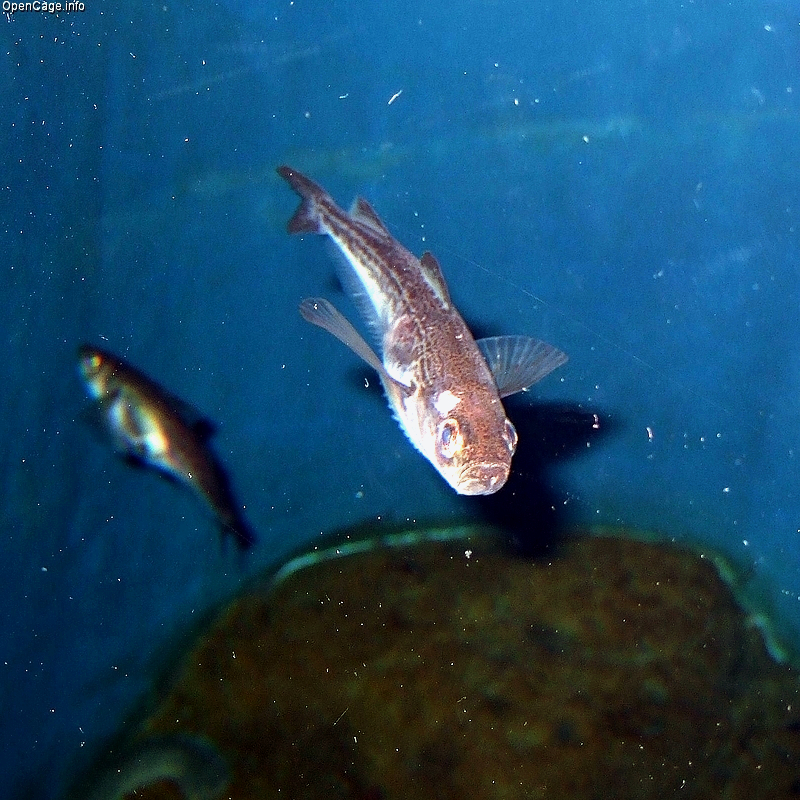 ハタハタ Sailfin sandfish Species Arctoscopus japonicus Familia Trichodontidae Location Kinosaki Marine World, Japan Copyright OpenCage